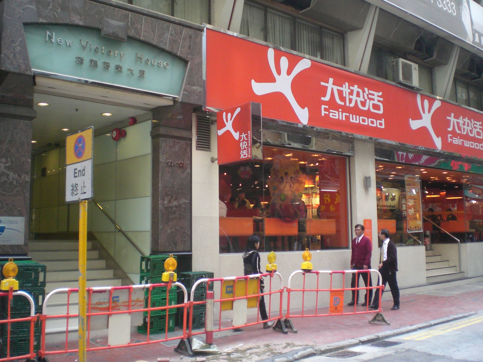 Fairwood (restaurant)Wing Lok Street, Sheung Wan 上環 永樂街 大快活